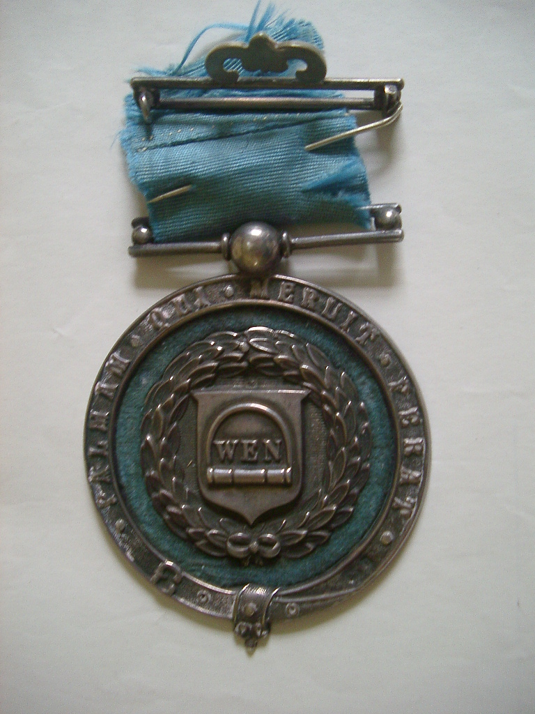 Awarded to John Hulley, Liverpool Gymnasiarch